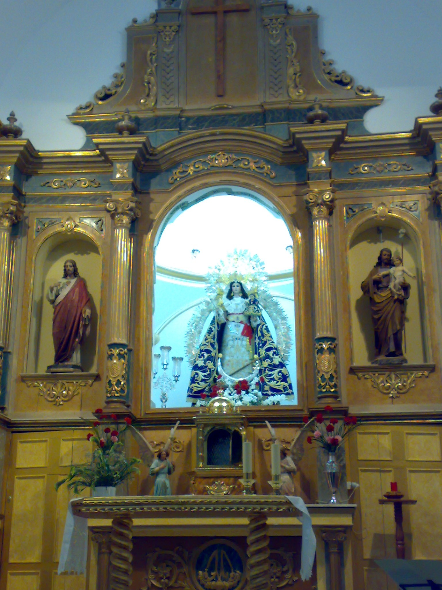 Altar de la ermita de la Villa con la Virgen de la Paz